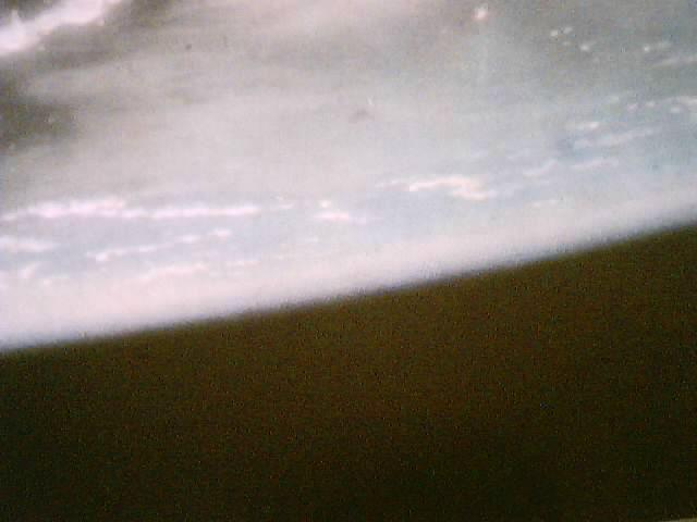 Atmosphere to 65 miles